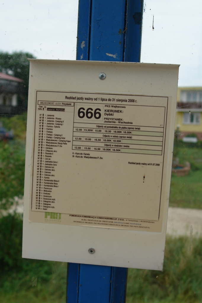 Bus stop in Jastarnia of bus no. 666 from Dębki to Hel(l).